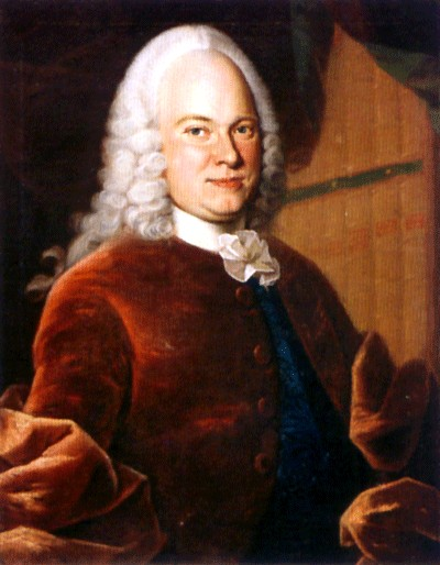 Jens Worm (1716-1790), Danish writer and educator. Portrait in Horsens Statsskole.